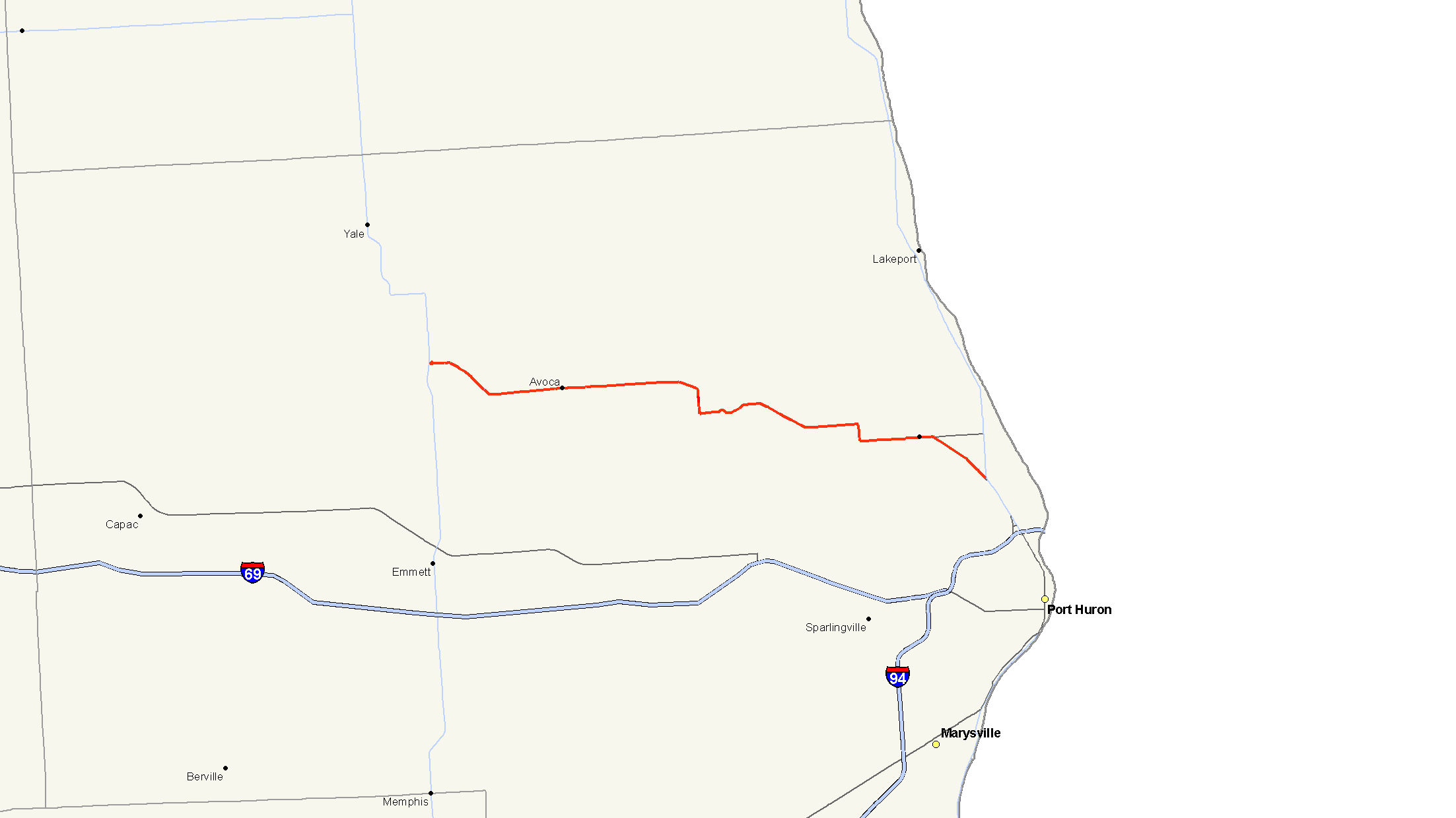 Map of M-136